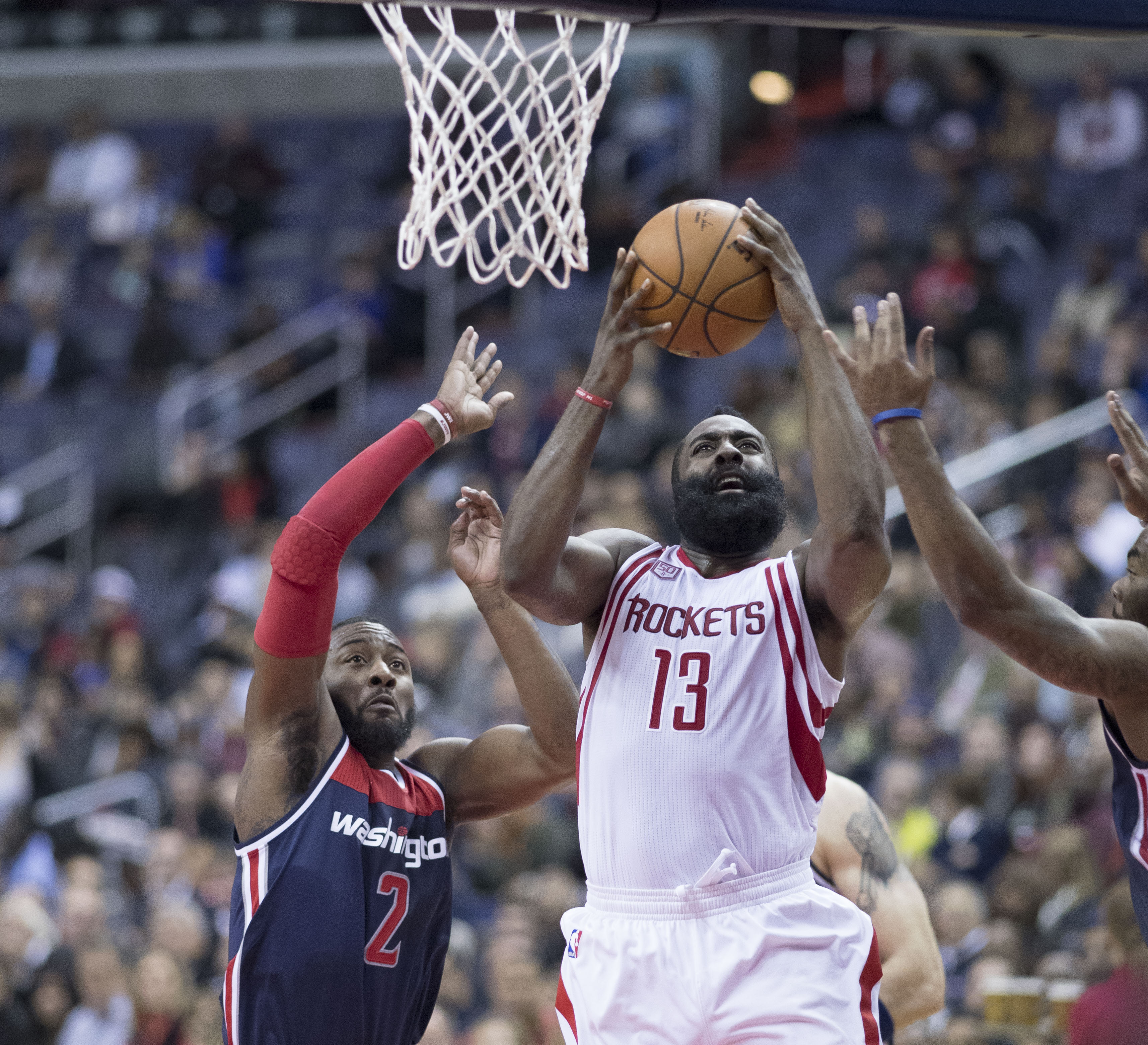 James Harden attacking the basket during a Houston Rockets game versus the Washington Wizards in 2016.